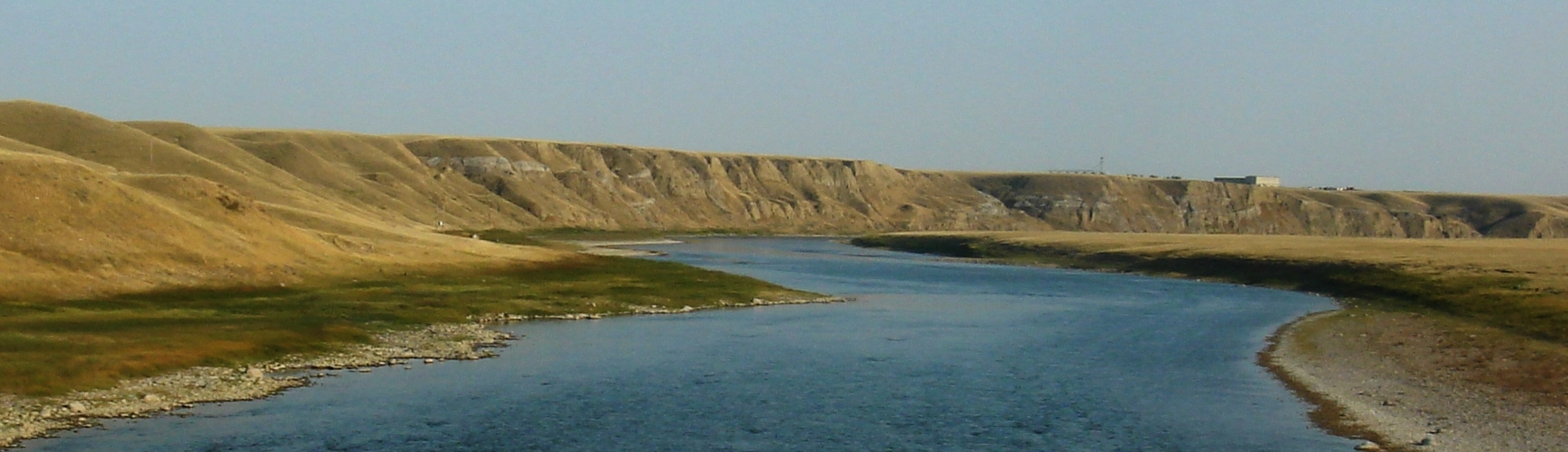 Oldman River close to the mouth, seen from Veteran Memorial Highway, Alberta, Canada